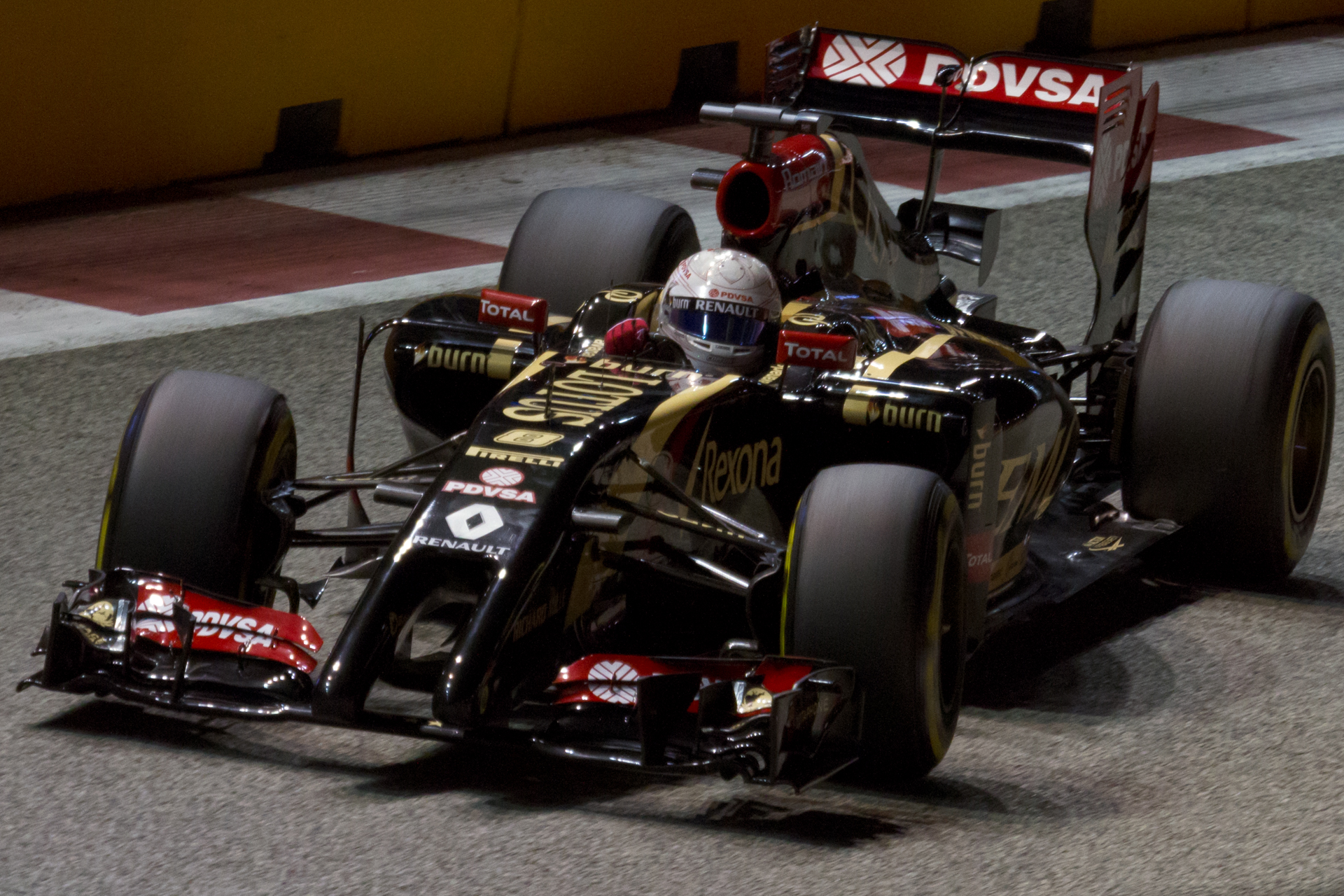 Formula One 2014 Rd.14 Singapore GP: Romain Grosjean (Lotus)